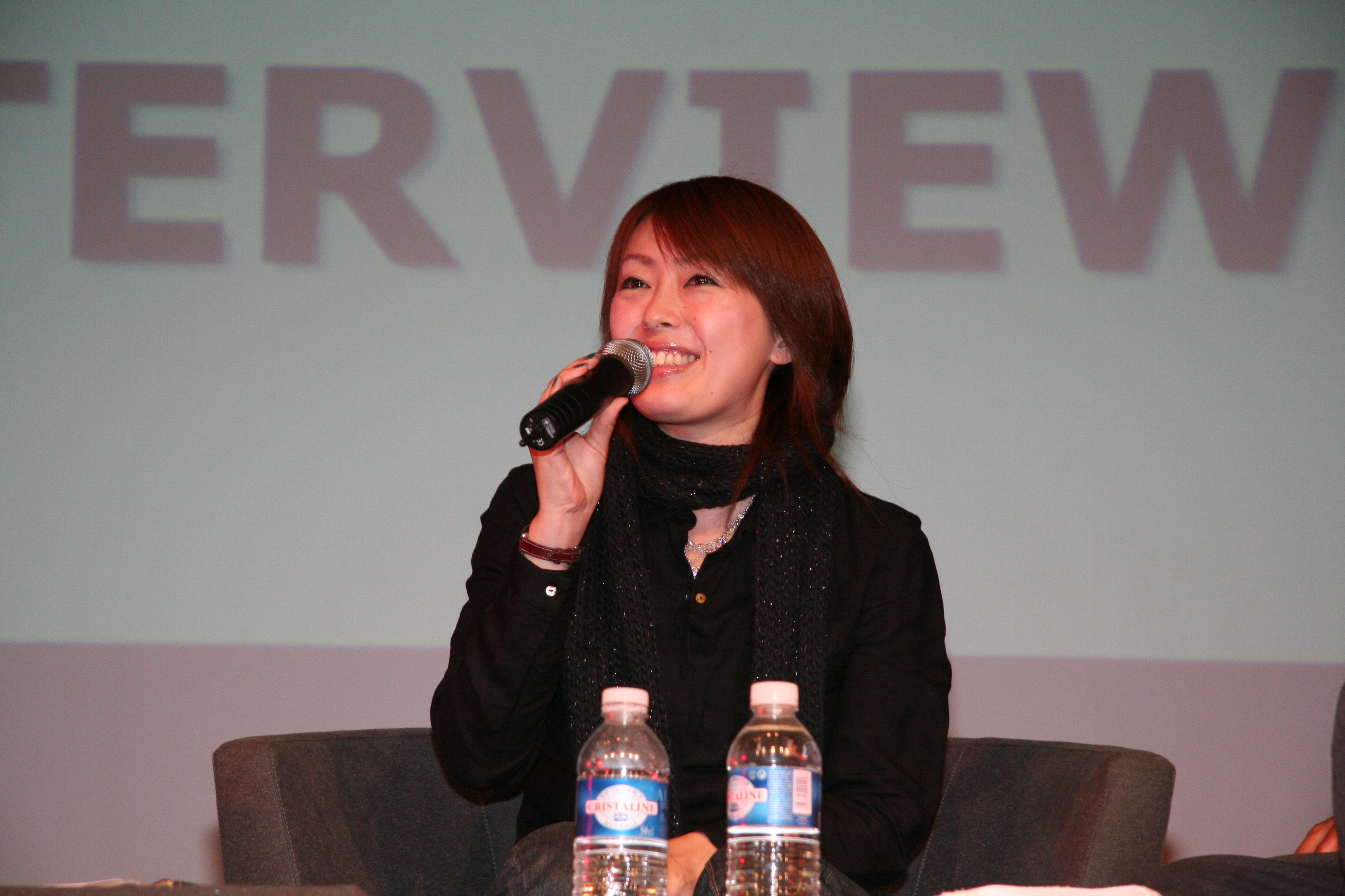 Conference with Yoko Ishida at Manga Expo 2 (Paris, France).